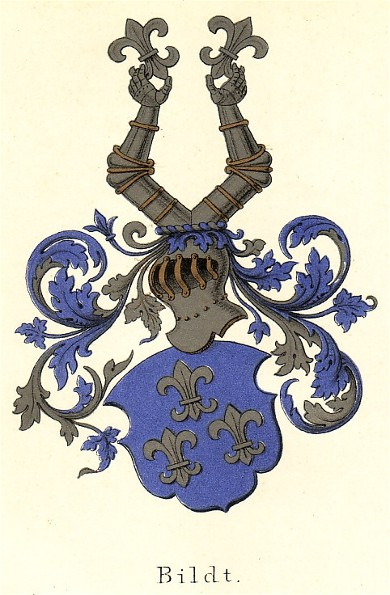 Coat of arms of the Bildt family